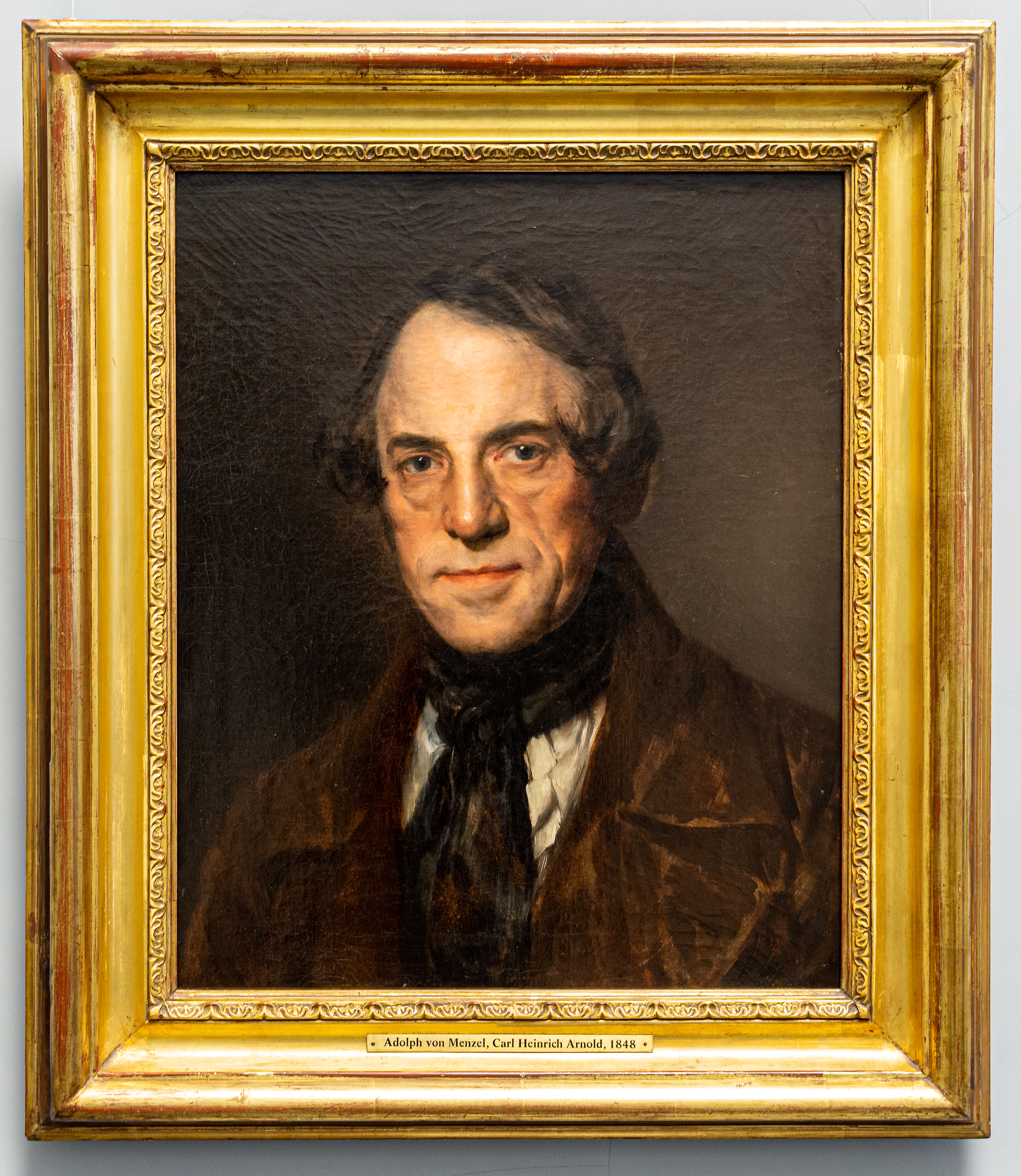 Carl Heinrich Arnold